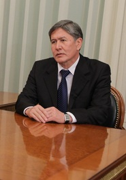 THE KREMLIN, MOSCOW. With the Prime Minister of Kyrgyzstan, Almazbek Atambayev.